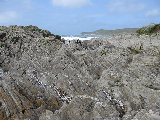 Devonian Morte Slates Rock formations between Woolacombe and Morte Point, which can be seen in the distance.